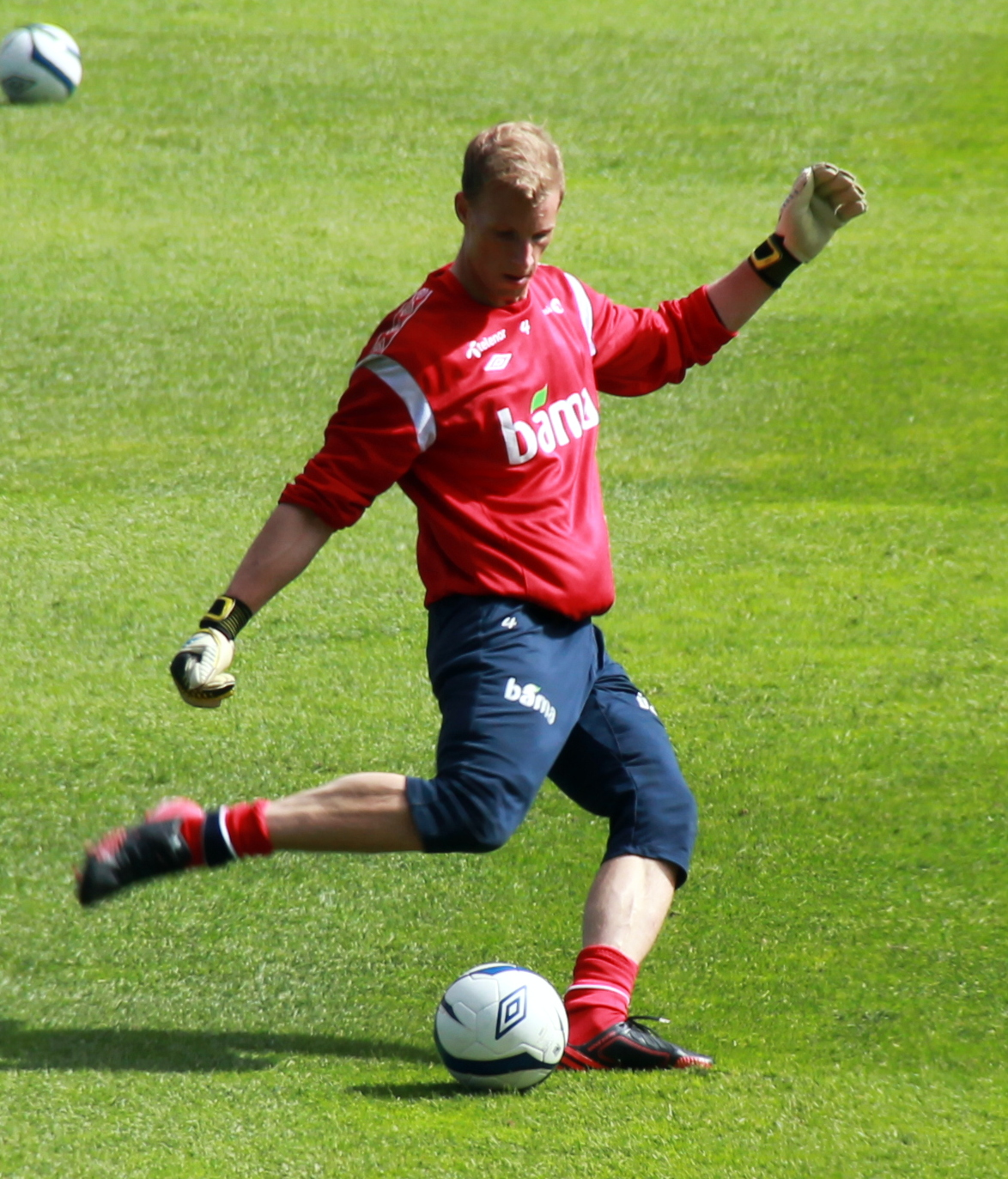 Andre Hansen, footballer for Odd and Norway national team